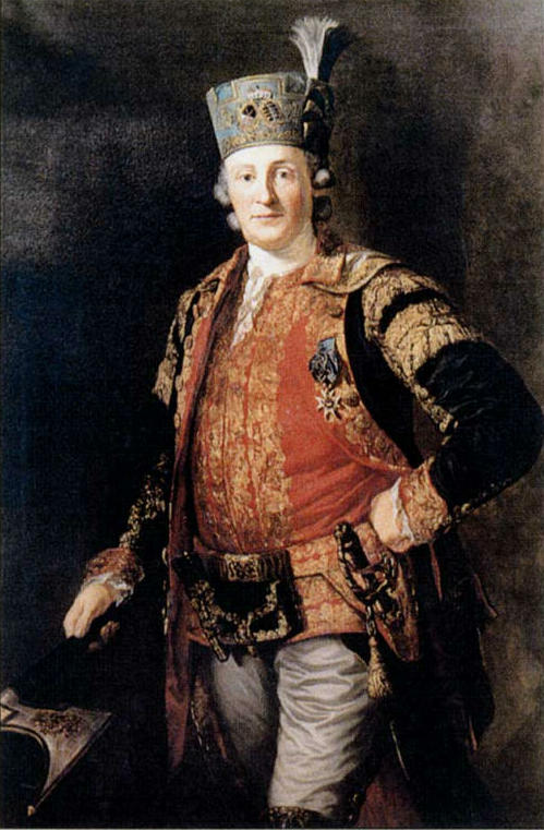 Friedrich Anton von Heynitz (1725-1802), administrator of the saxon and later of the prussian mining office.